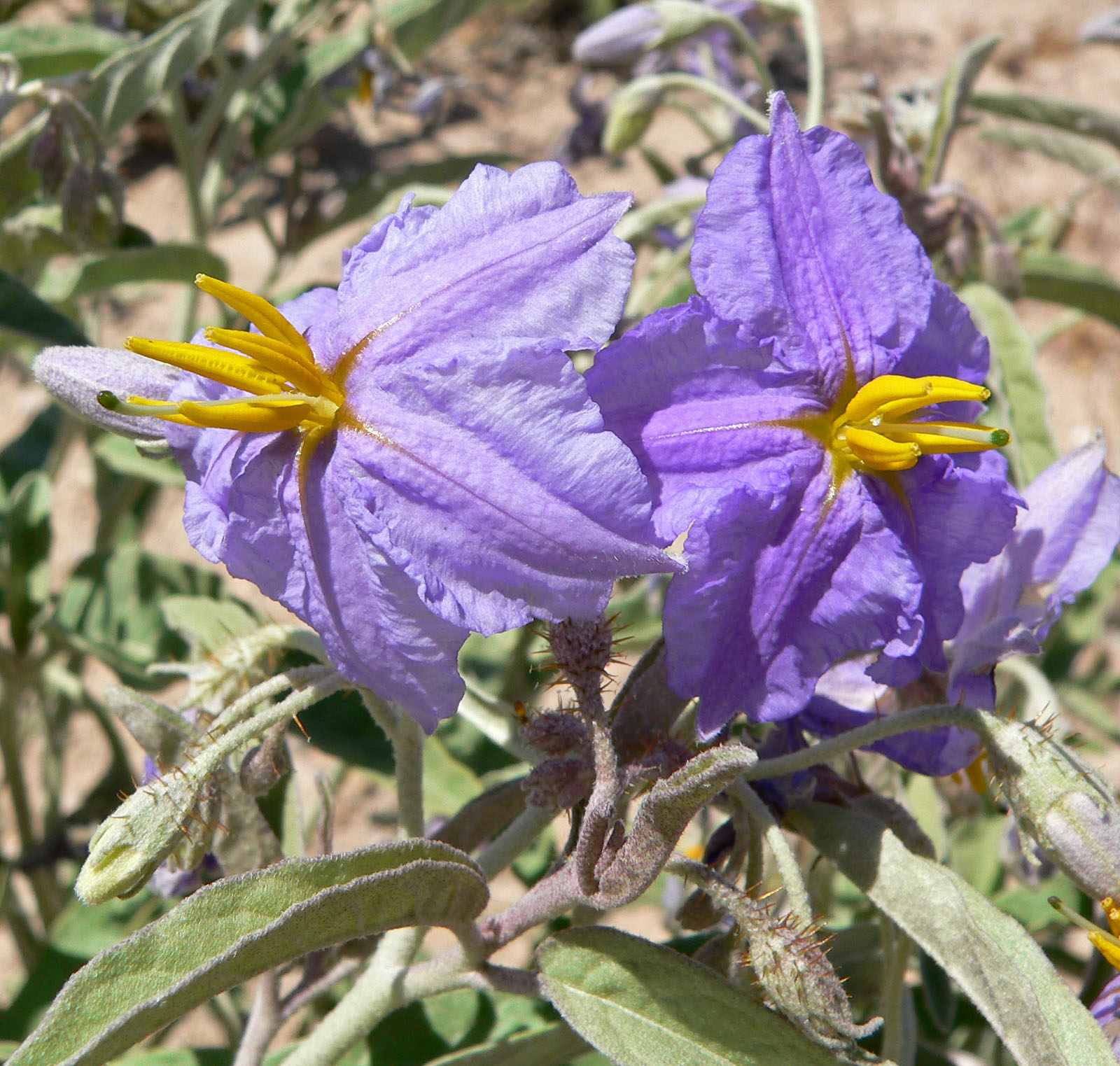 Solanum elaeagnifolium on a roadside near Goodsprings, Nevada